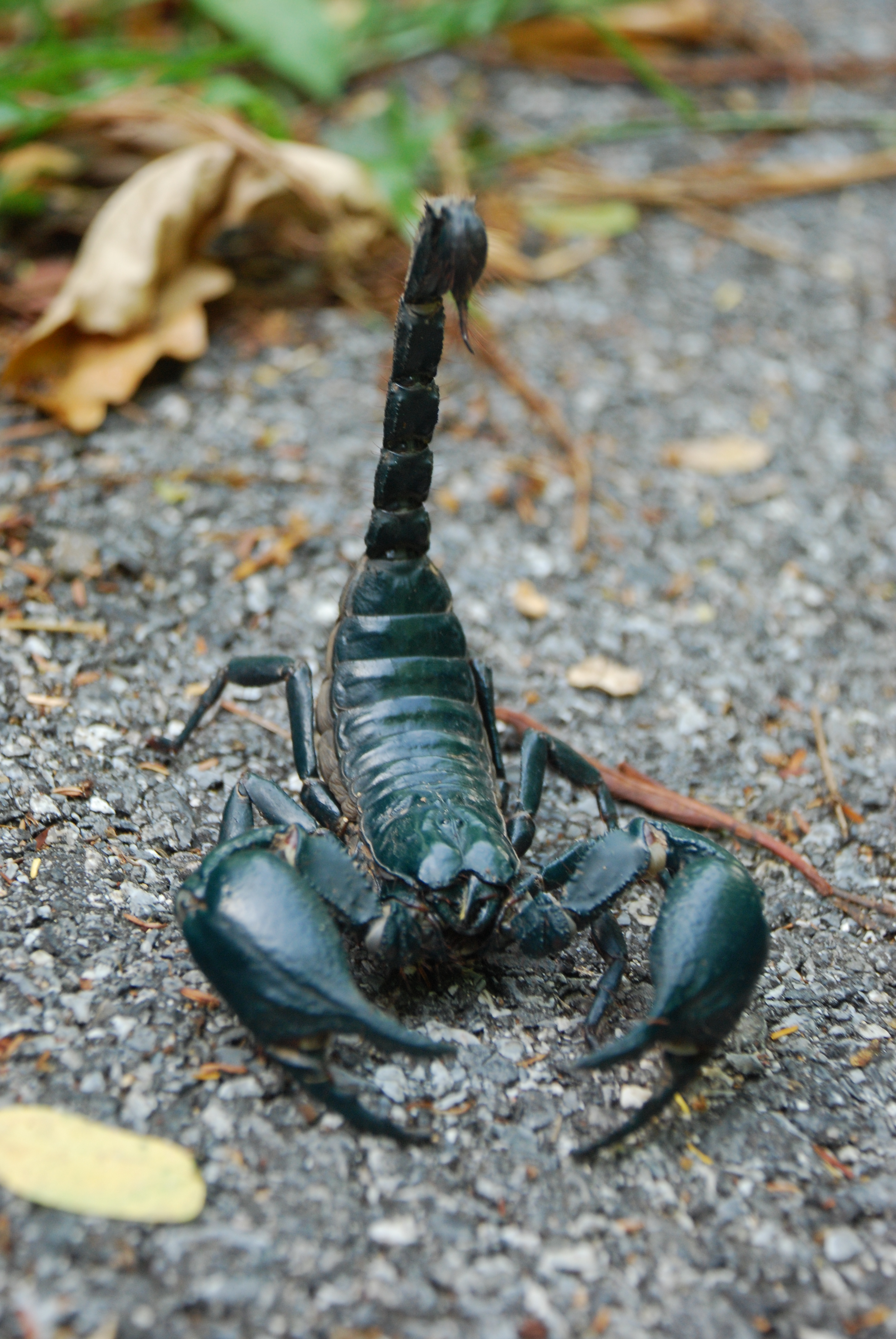 Asian forest scorpion (Heterometrus laoticus) in Khao Yai National Park, Thailand